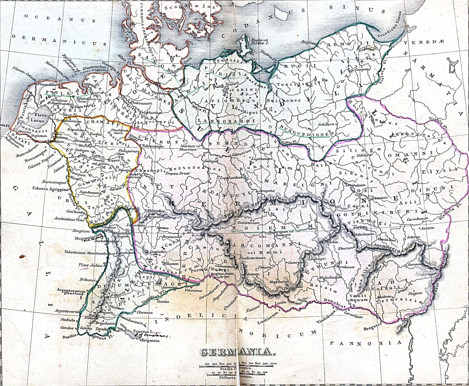 Ancient Germania From A Classical Atlas of Ancient Geography by Alexander G. Findlay. New York, Harper and Brothers, 1849.